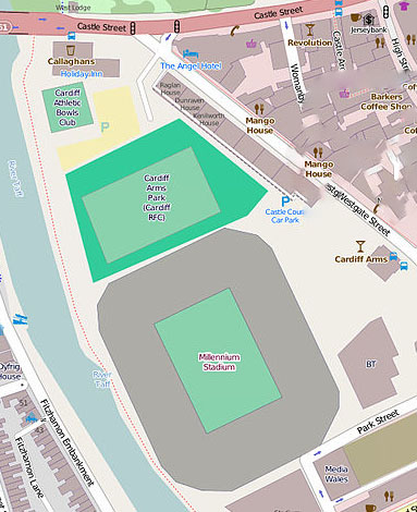 Map of the Millennium Stadium and Cardiff Arms Park + Cardiff Athletic Bowls Club, Cardiff.